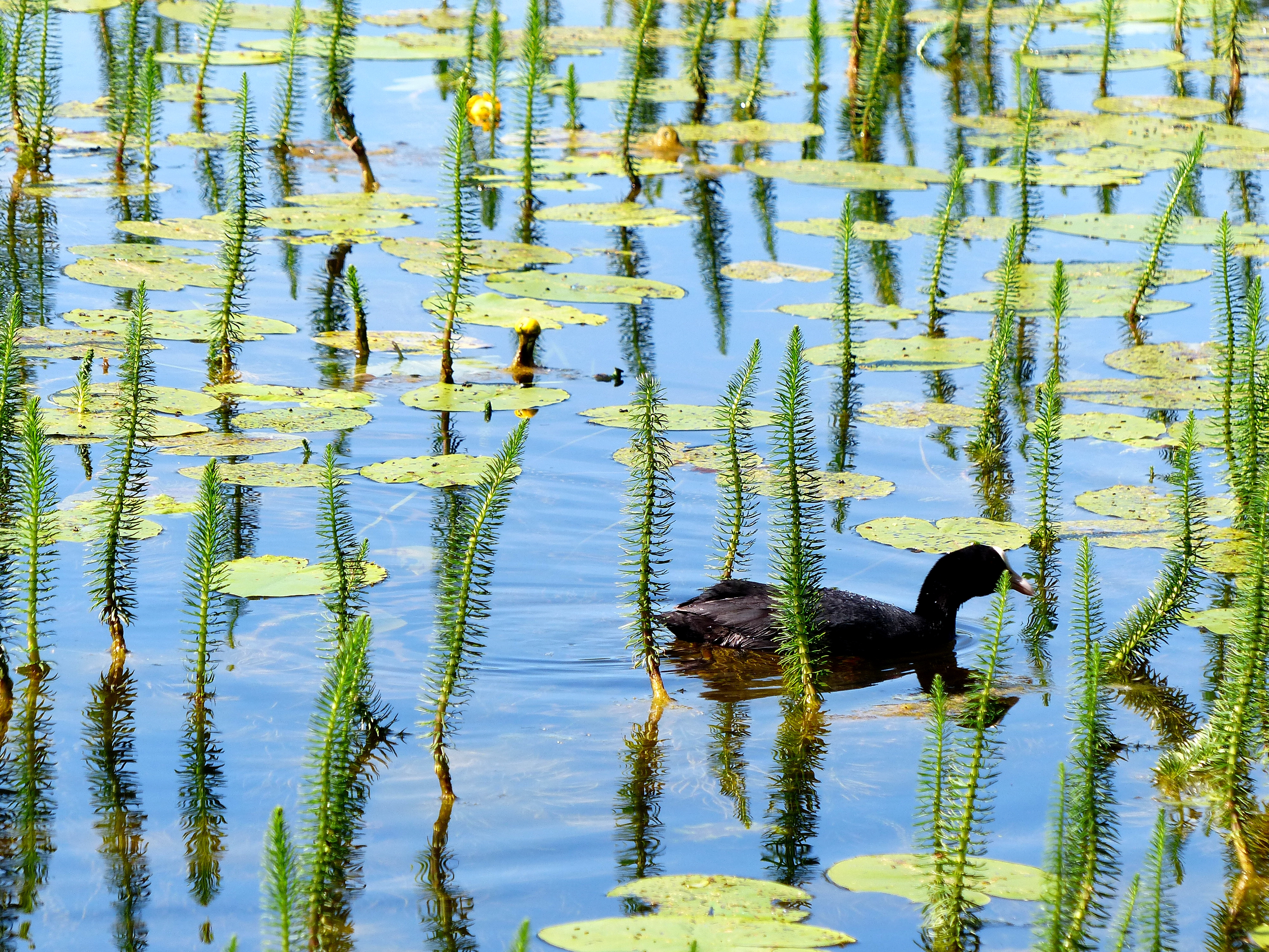 Eurasian Coot in the nature reserve Widdumer Weiher